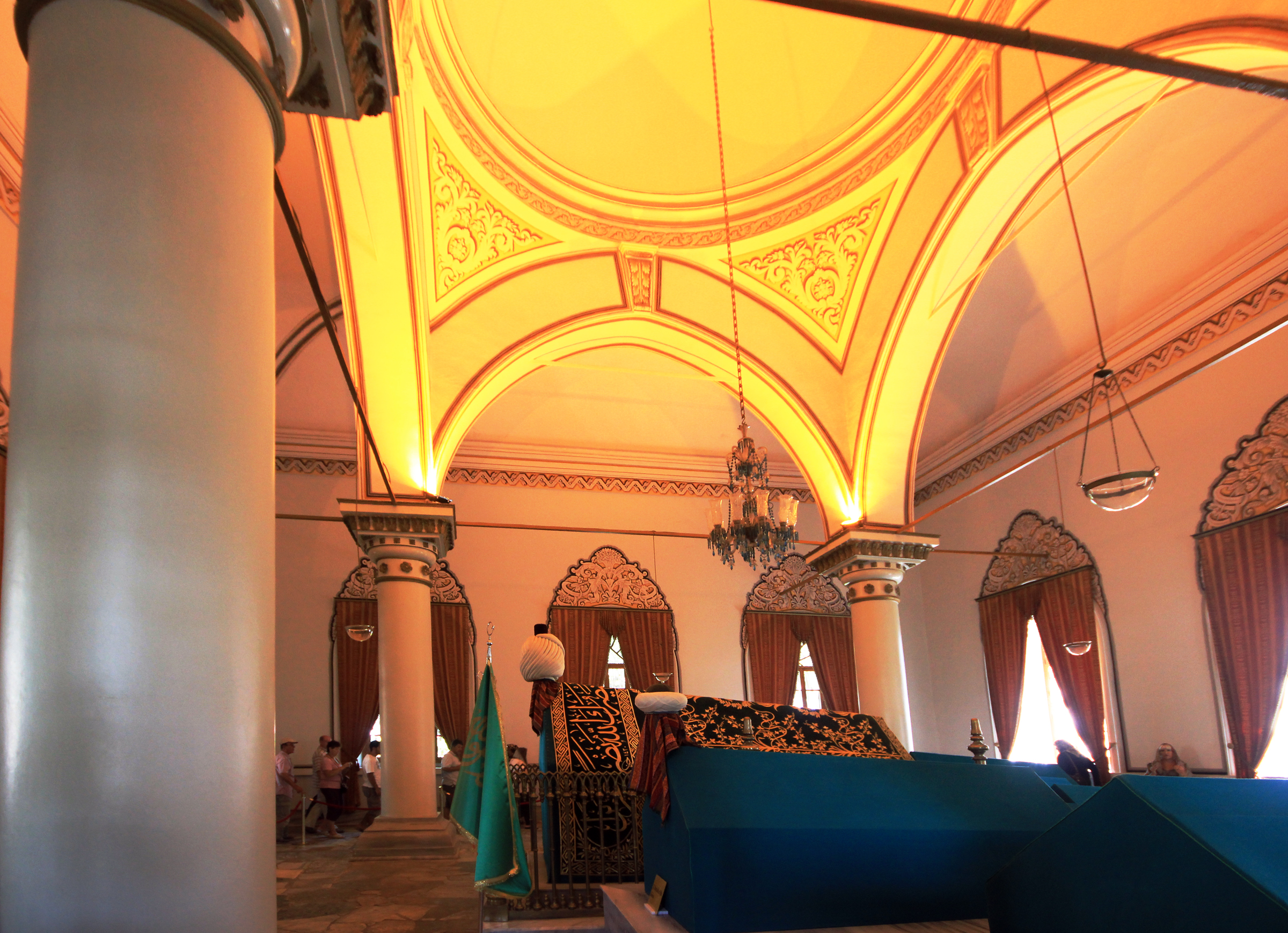 The tomb the second Osman sultan Orhan I. in Bursa city, Turkey